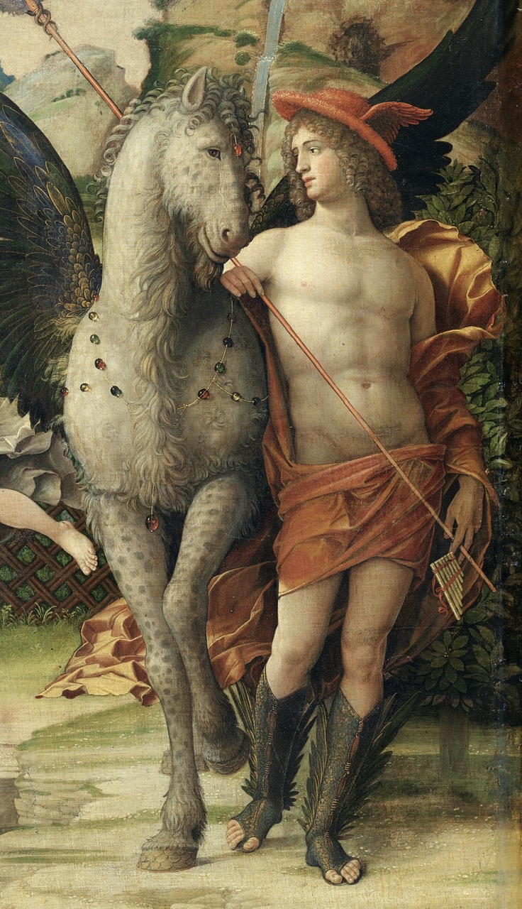 Pegasus and Hermes. Detail